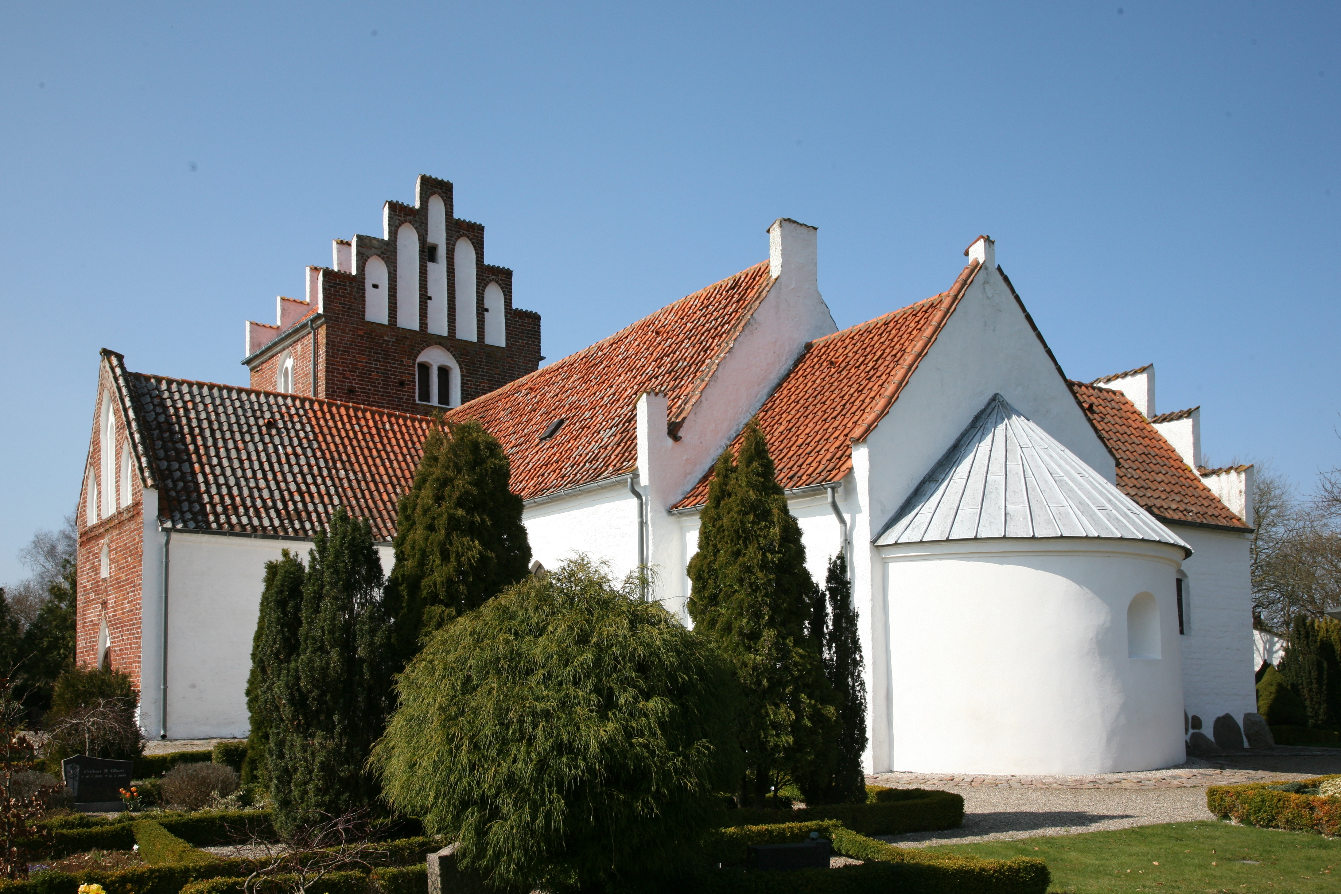 Vester Broby kirke - a village church south of Sorø in Denmark - famous for its wall paintings